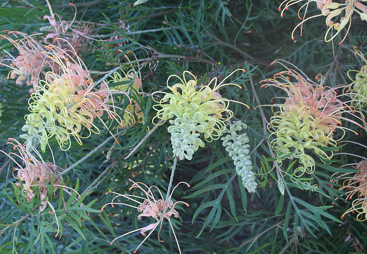 Grevillea 'Peaches and Cream', in Peter Olde's garden, Oakdale, NSW